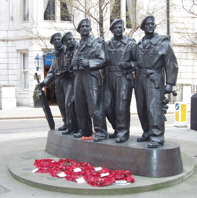 Unveiled in 2002, sculpture by Vivien Mallock. The location is where the idea of the first tank was conceived by Ernest Swinton.